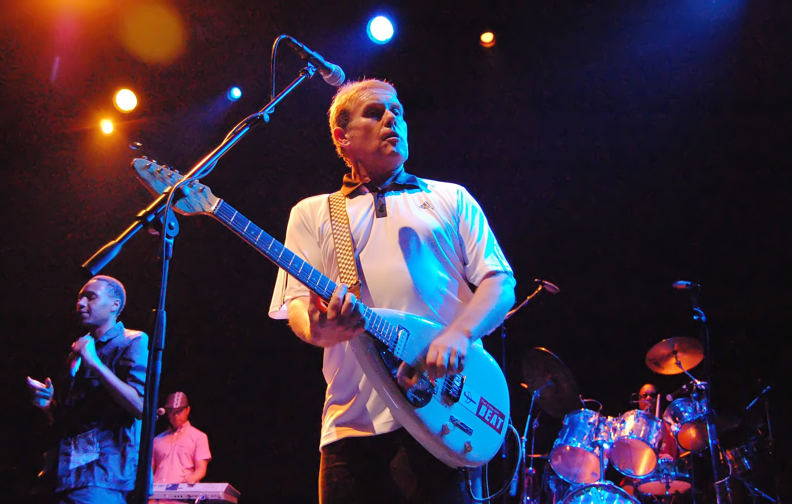 Dave Wakeling's American version of The English Beat, live at Club Nokia, LA Live. Los Angeles, California. 31 July 2009.